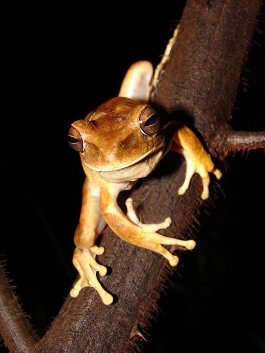 Hypsiboas raniceps